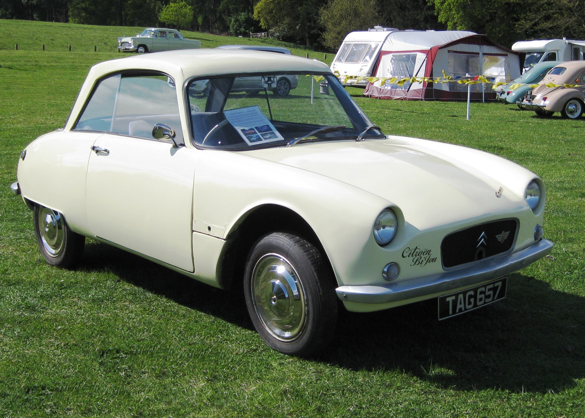 Citroen Bijou near Biggleswade